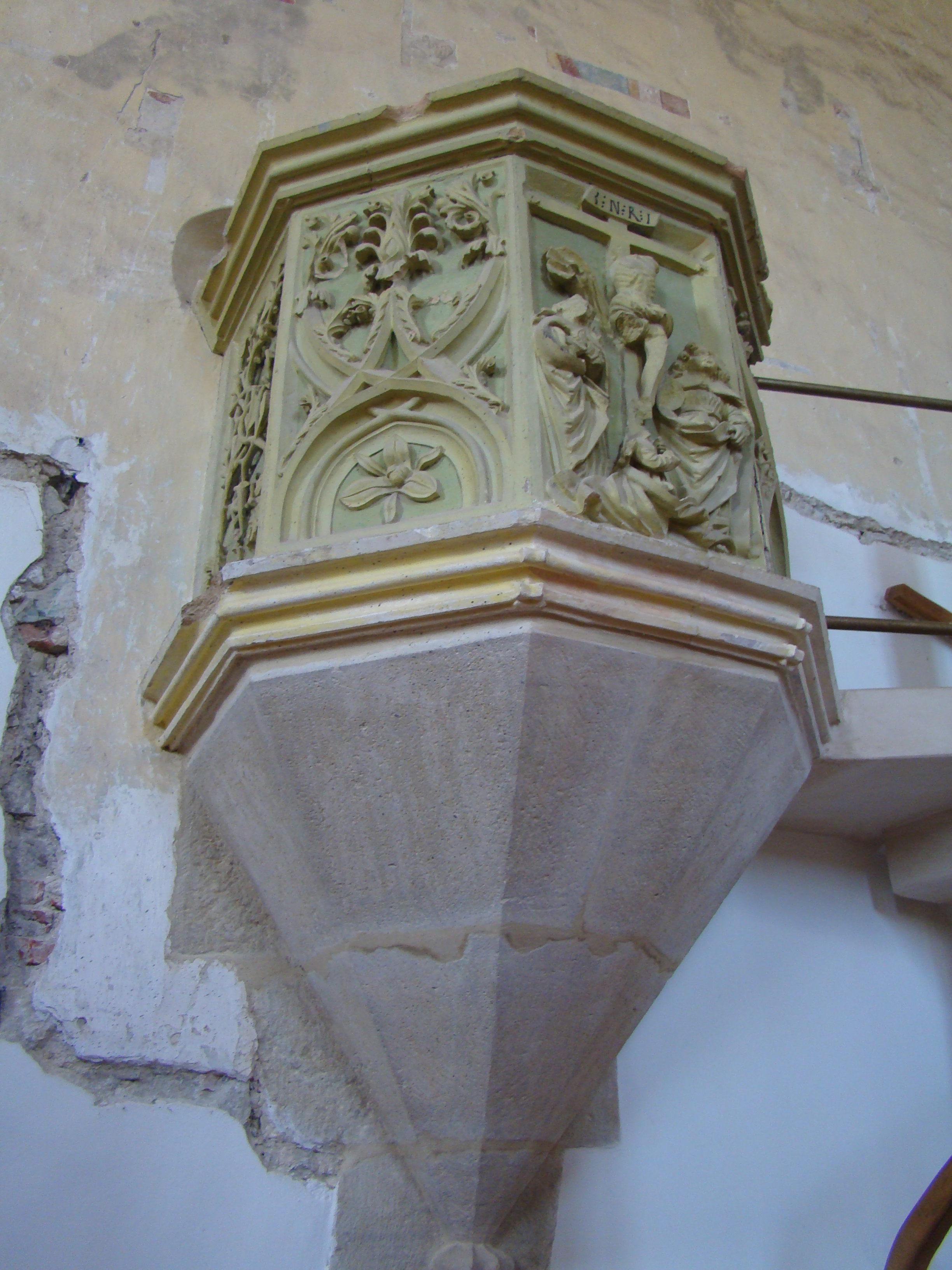 Lutheran church in Tărpiu, Bistrița-Năsăud county, Romania